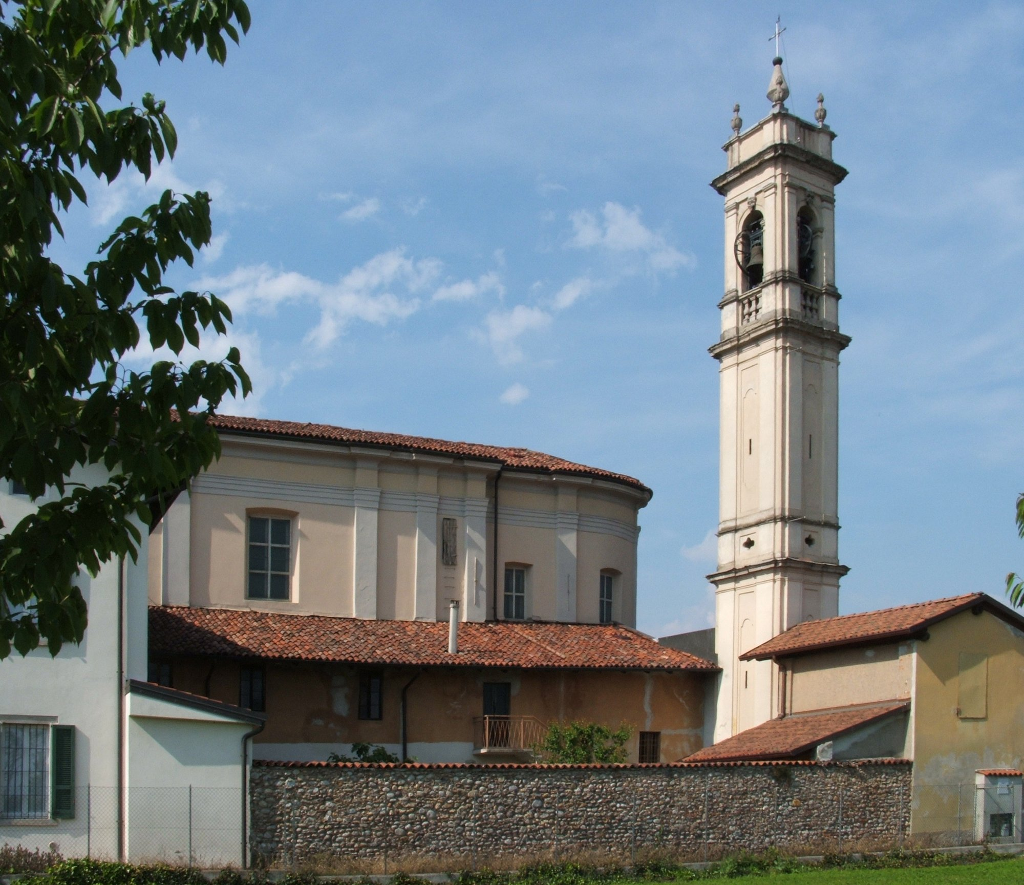 Levate (Bergamo), Lombardy, Italy